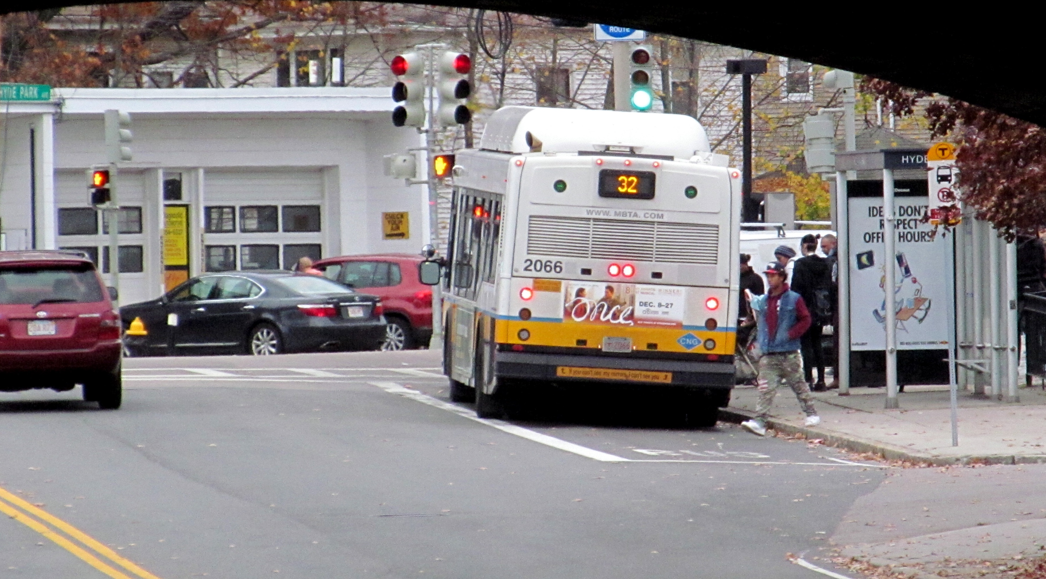 A #32 bus at its terminus at Wolcott Square, viewed under the Fairmount Line viaduct